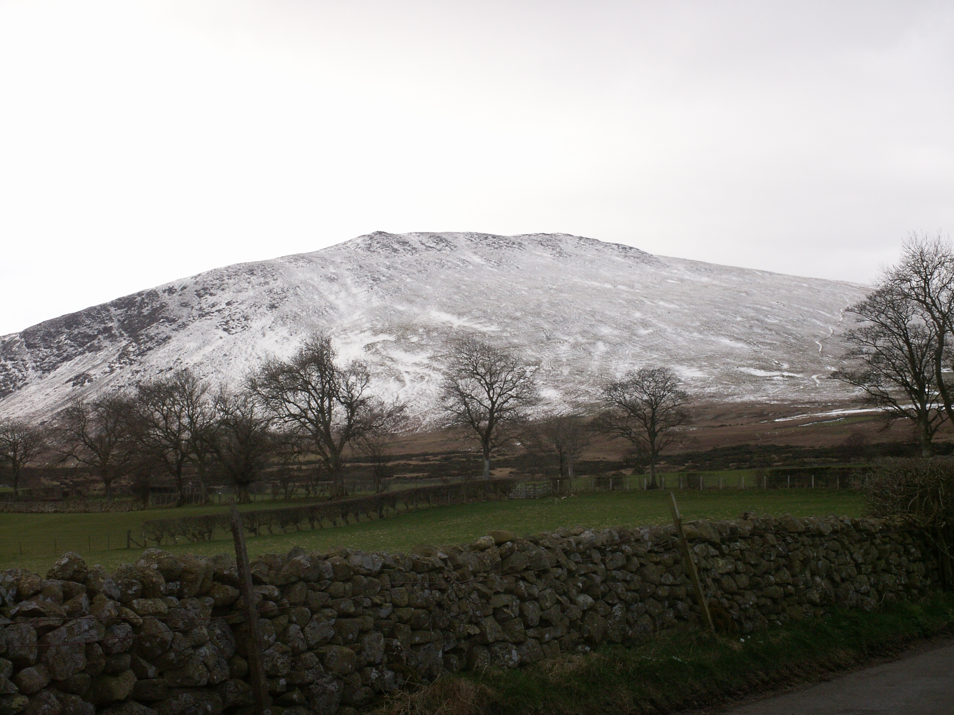 Carrock Fell from the north, English Lake District